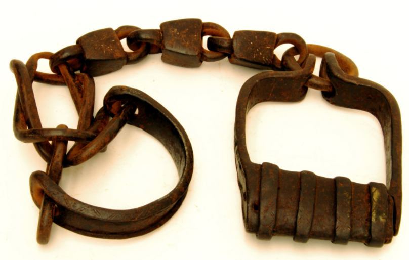 The chains displayed above were used in the Trans-Atlantic trade to shackle slaves.